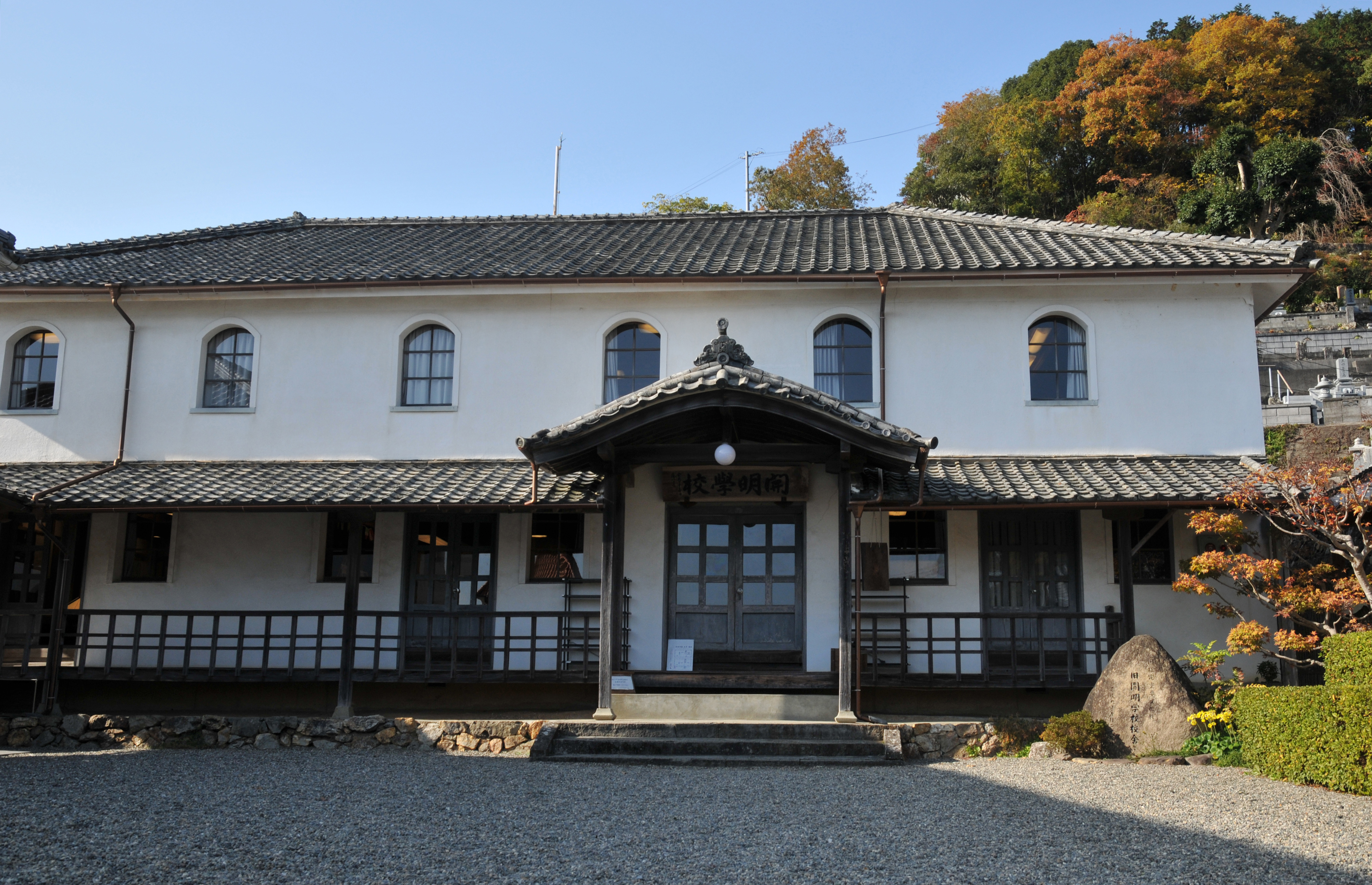 Kaimei School building